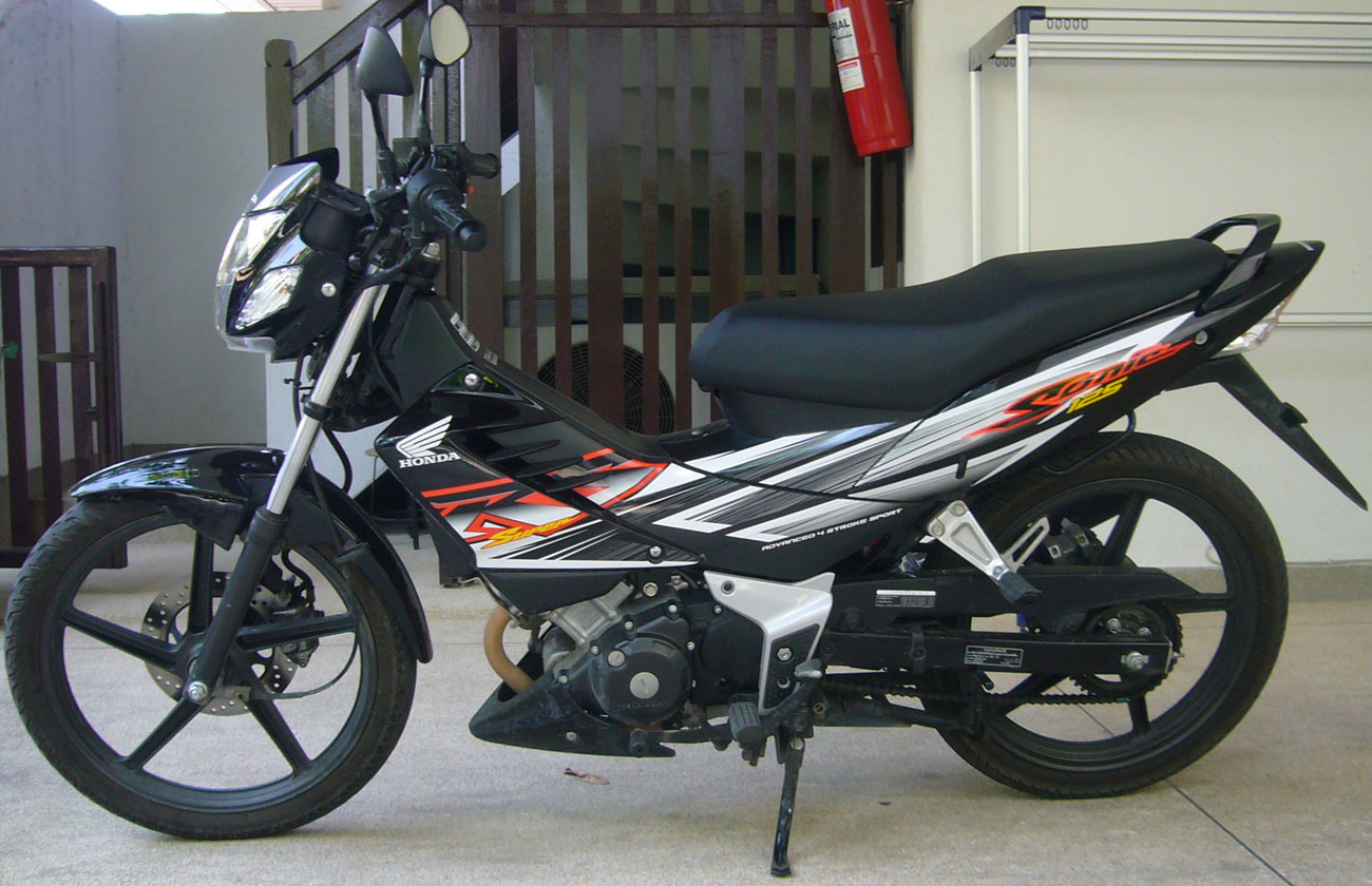 Side image of the RS Nova Super Sonic 125